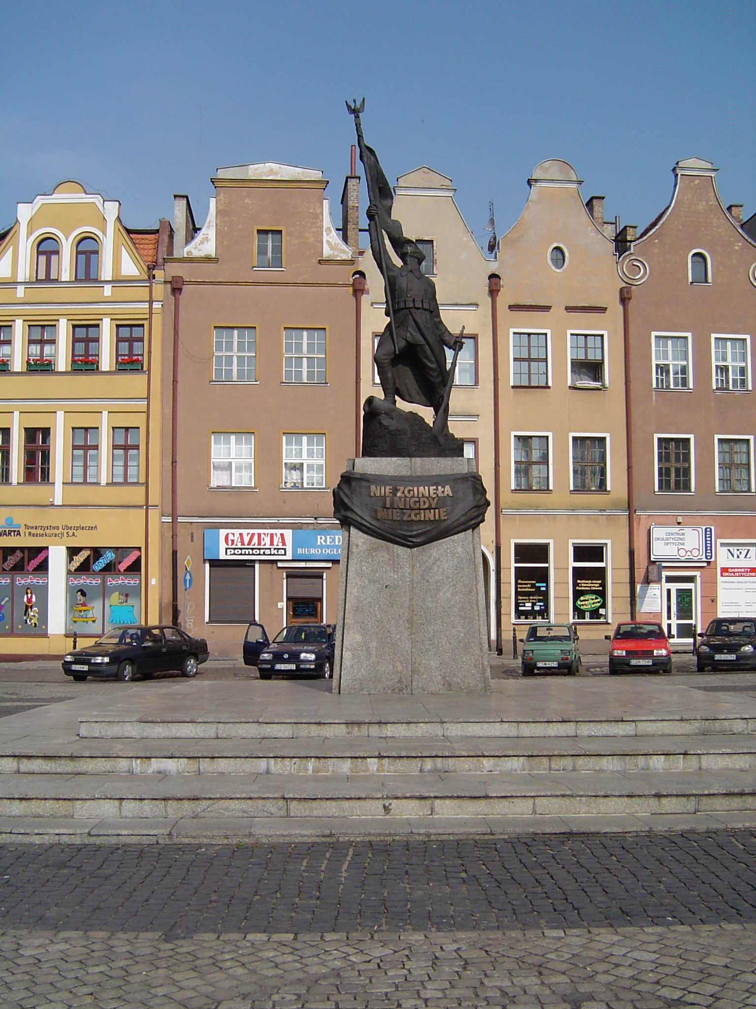 Market Square in Grudziądz - Monument of Polish Soldier